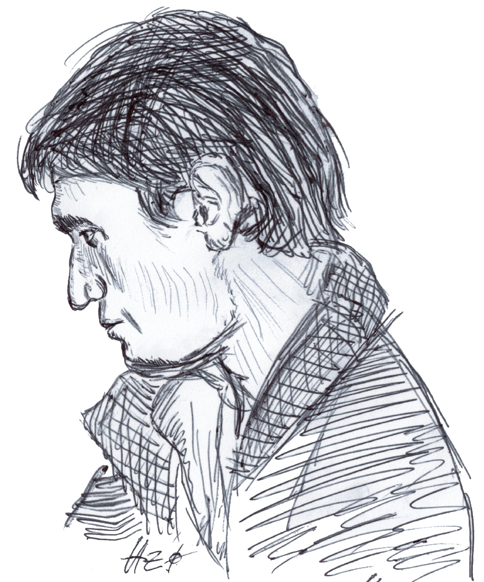 Miguel Ángel Félix Gallardo Drug lord, leader of the Guadalajara cartel in the 80s. Hand-drawn picture I made based upon videos and pictures of his arrest (1989)